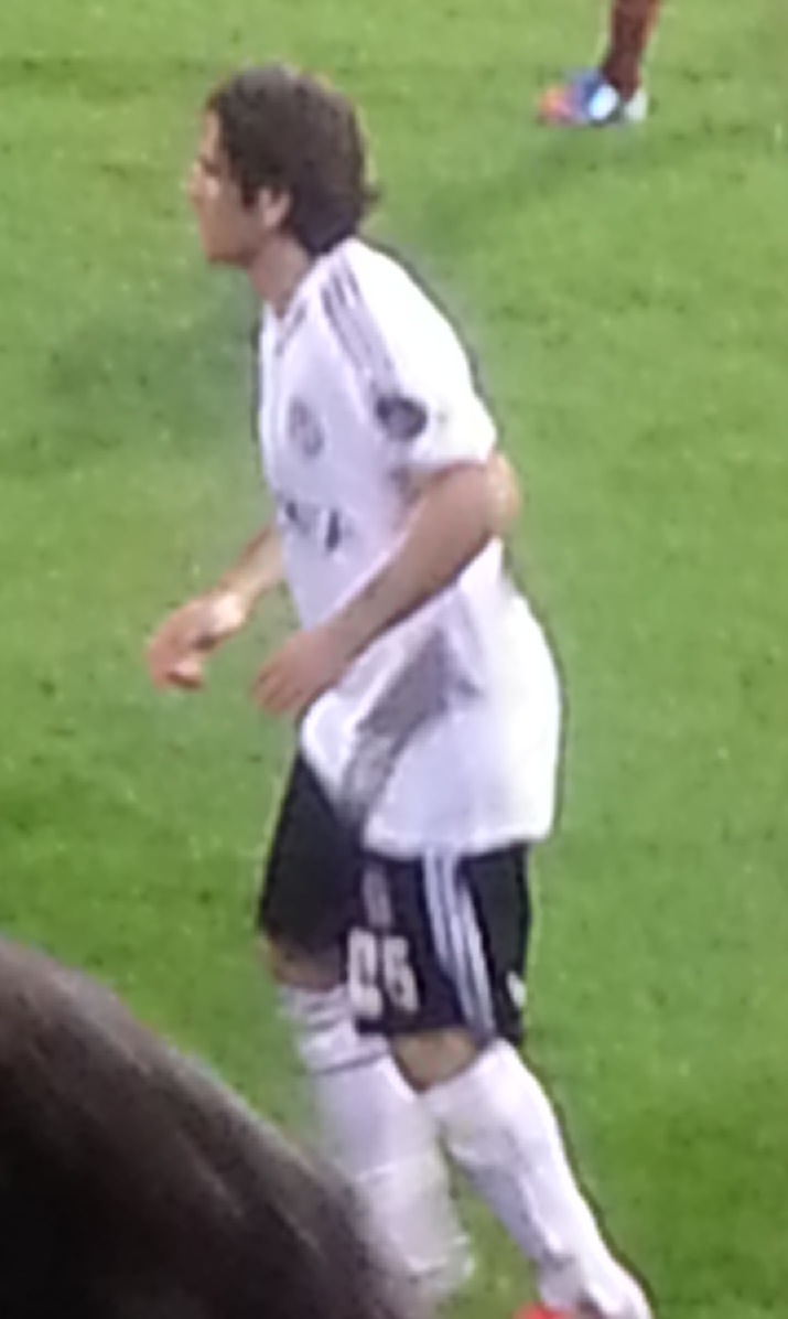 Uğur Boral